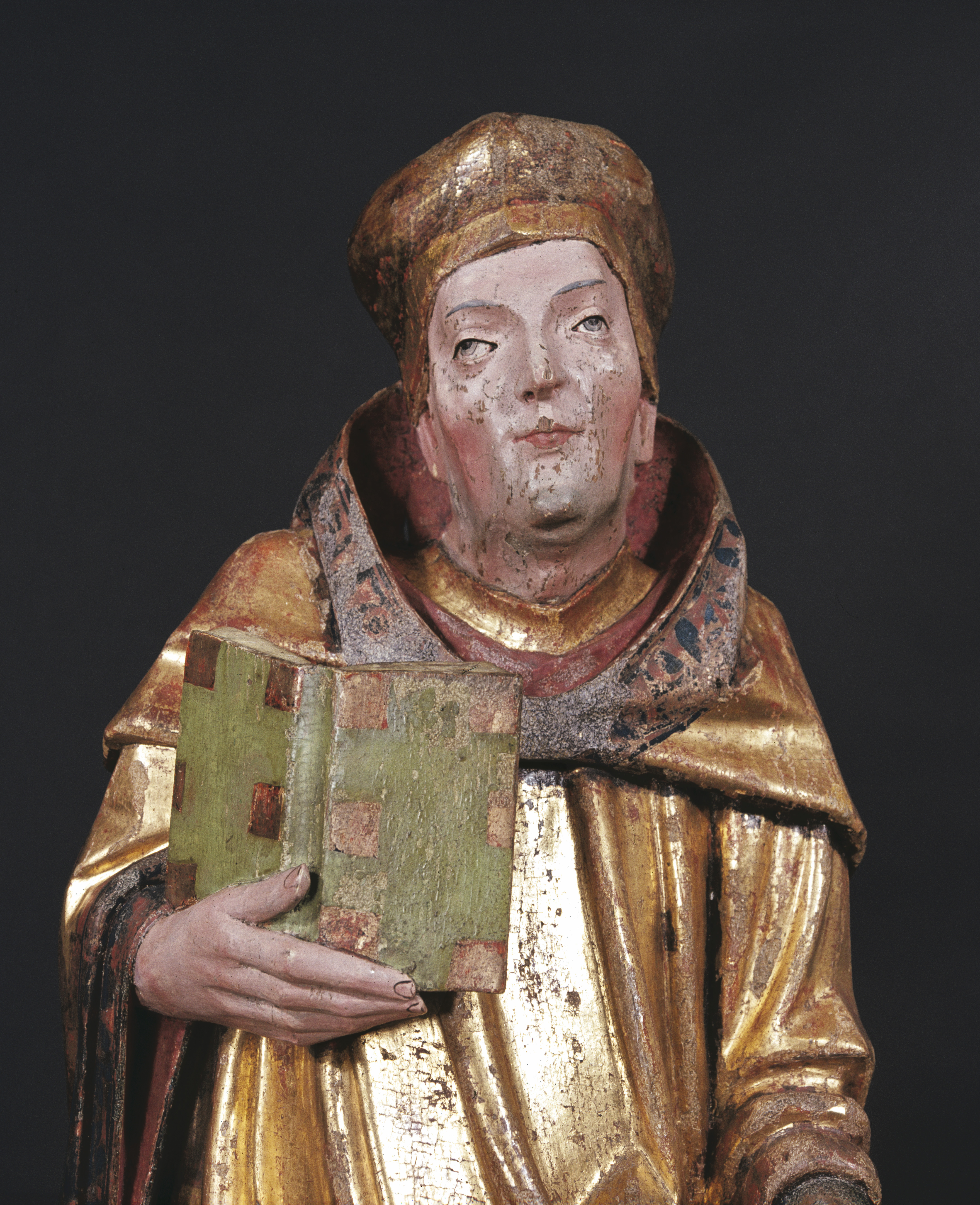 Old altar piece from Kvæfjord church, Norway. It is now stored in Museum of Cultural History, Oslo. Detail, showing Saint Giles.